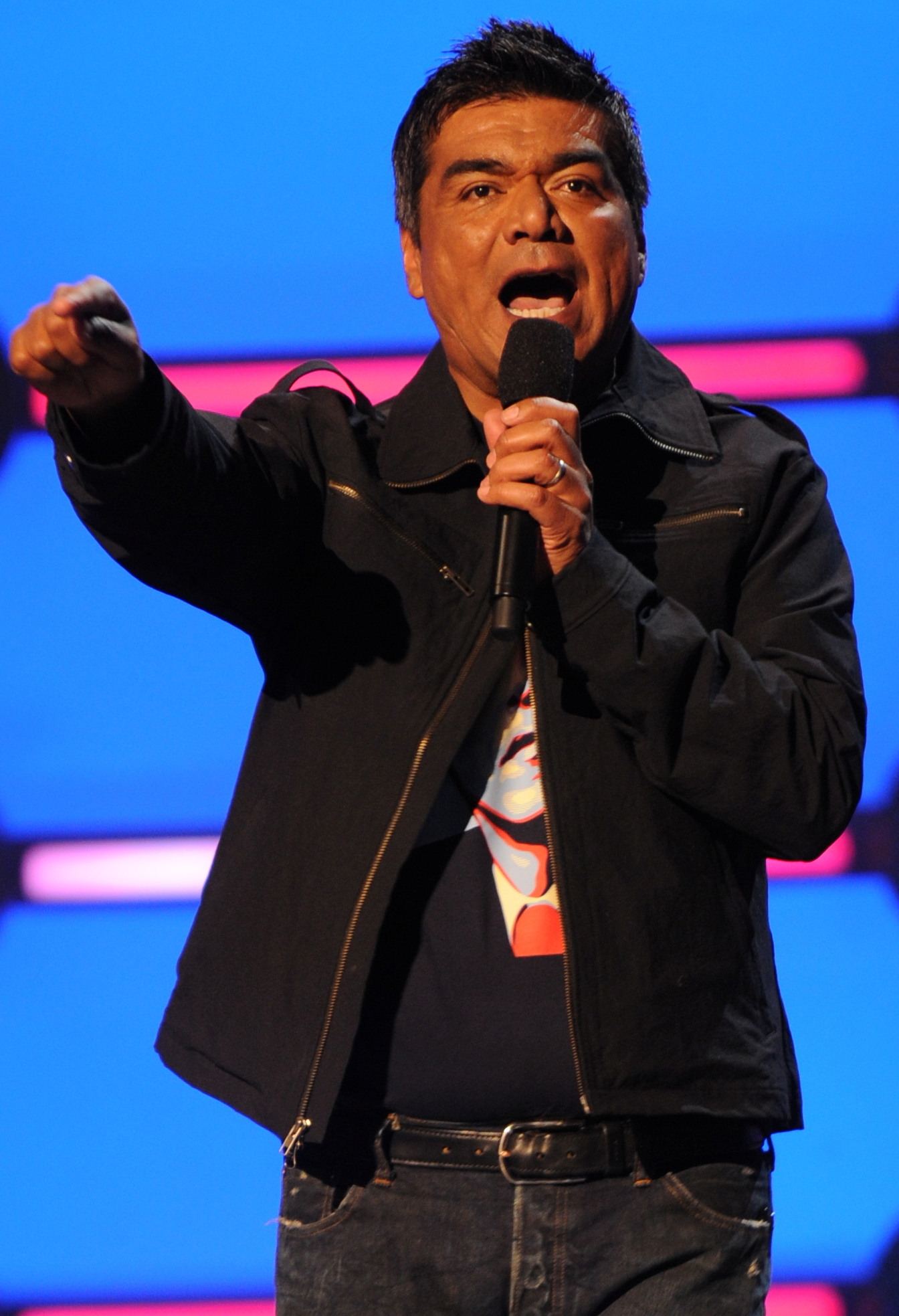 George Lopez performs at the "Kids Inaugural: We Are the Future" concert at the Verizon Center in downtown Washington, D.C., Jan. 19, 2009.